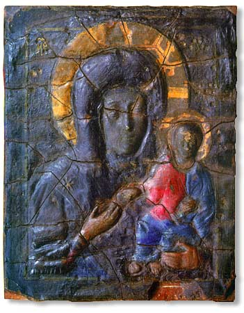 The Holy Virgin Blachernitissa, divine protectress of the Byzantine Empire, now in the Tretyakov Gallery (coppy from the Stroganov collection)